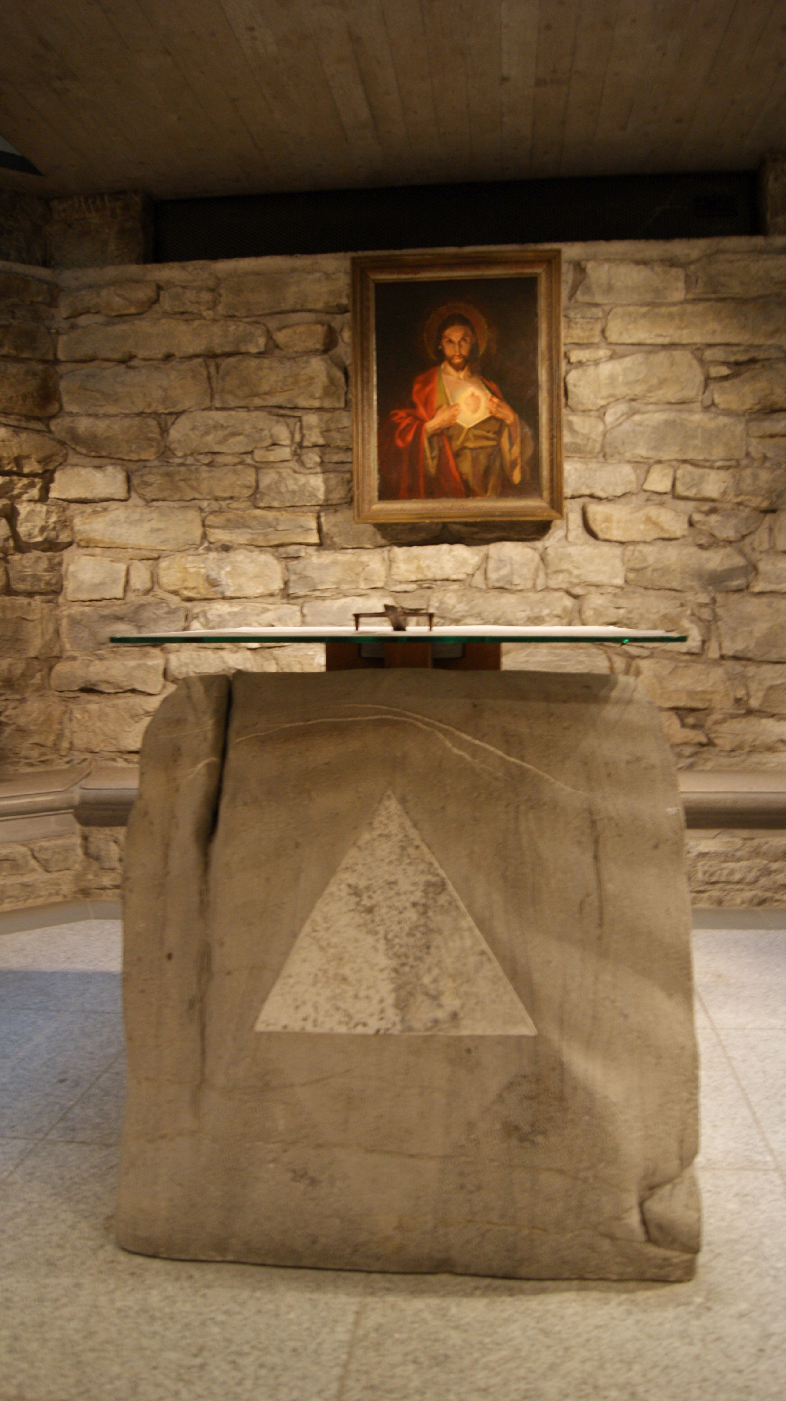 Altar and altarpiece in the lower church in the parish church Schwarzach in Vorarlberg, Austria.